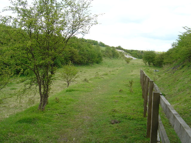 Nature Reserve at Kiplingcotes chalk pit east of Goodmanham, East Riding of Yorkshire, England.Managed by Yorkshire Wildlife Trust who have used Exmoor ponies and Soay sheep to graze the land